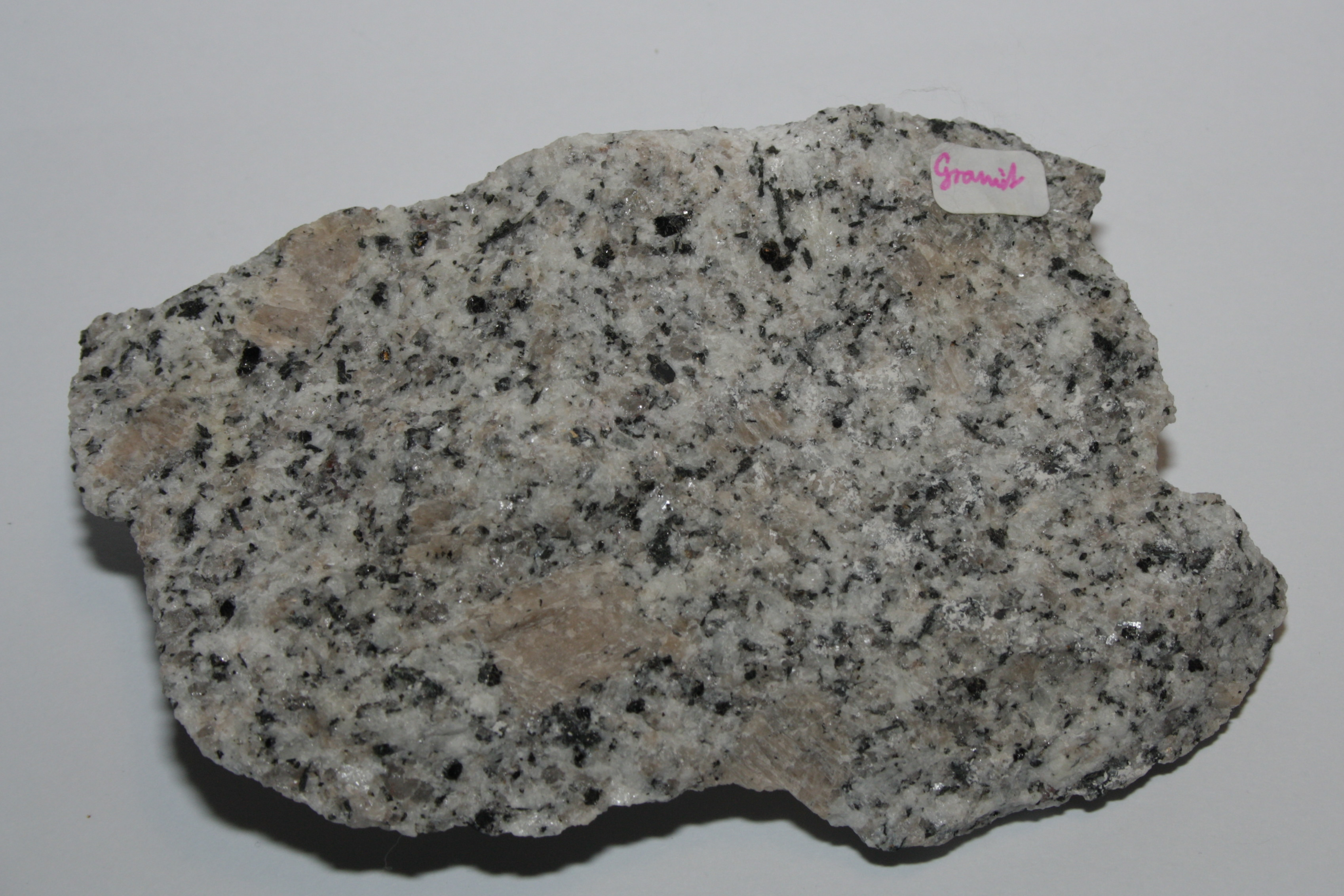 A piece of granite.